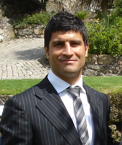 Pedro Emanuel in the year of 2008.